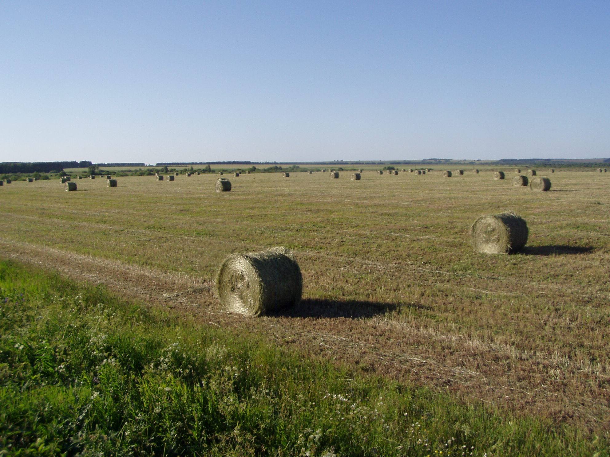 Agricultural field in Pizhanka rayon, Kirov oblast, Russia